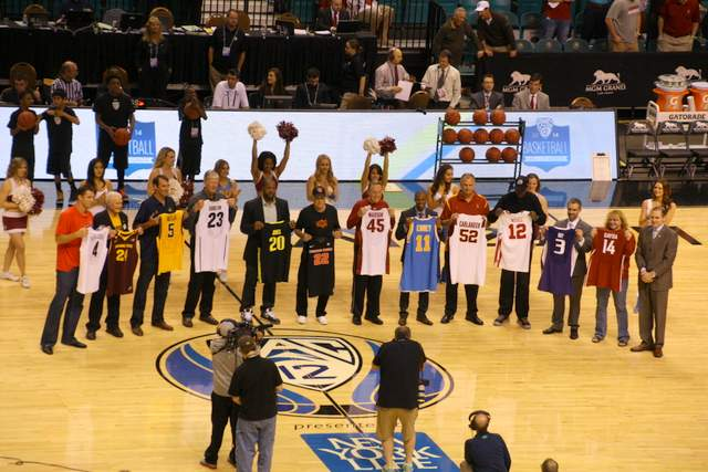 Pacific-12 Conference Men's Basketball Hall of Honor induction ceremony during 2014 Pac-12 Tournament